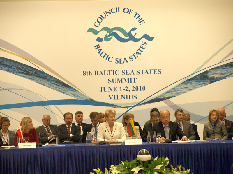 8th CBSS Summit in Vilnius, 2010